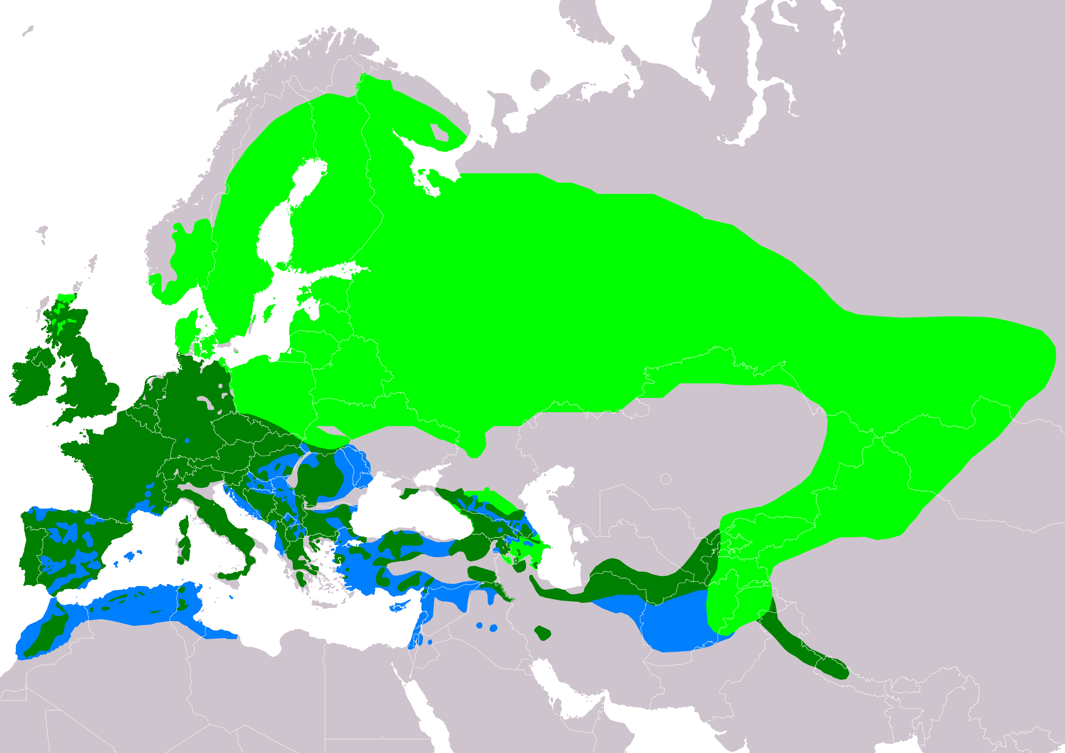 Distribution map of mistle thrush (Turdus viscivorus) according to IUCN version 2019-2 ; key: Legend: Extant, breeding (#00FF00), Extant, resident (#008000), Extant, non-breeding (#007FFF)